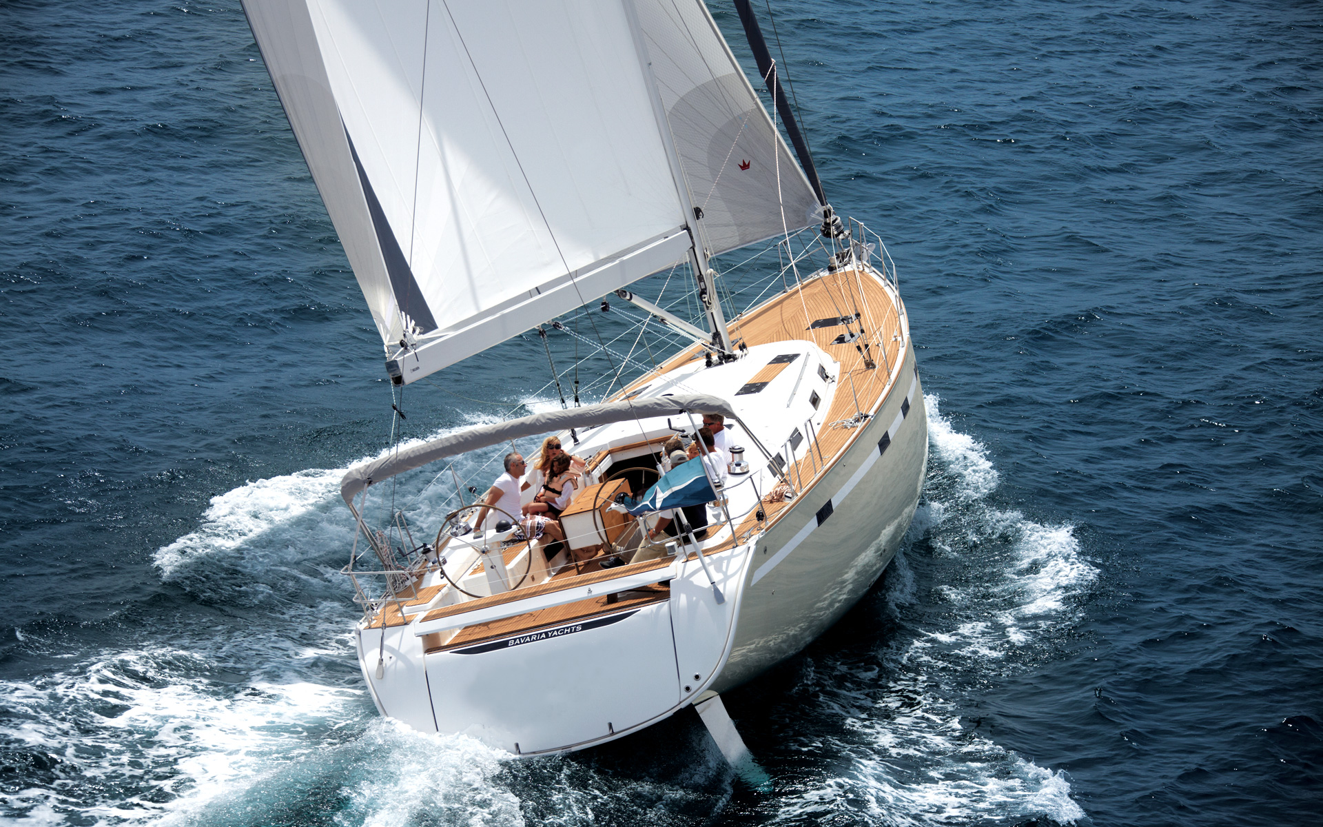 A sailing yacht type Bavaria Cruiser 55 by Bavaria Yachtbau (Germany)